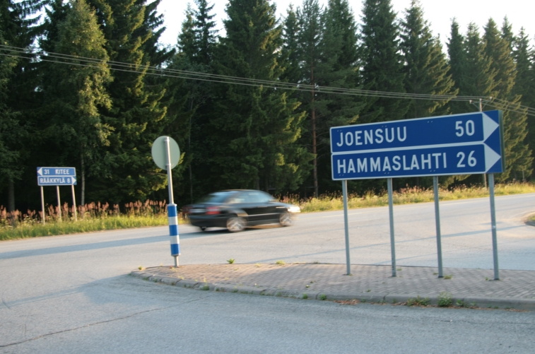 Intersection of the regional roads 482 and 484 in Rasivaara, Rääkkylä, Finland.